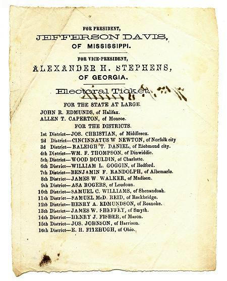 Electoral ballot from Virginia in the November 6, 1861 election for President of the Confederate States of America. The ink stains are from the signature of the voter on the other side of the paper (pictured on the same store Web page: "Wm. P. Smith"). Store Web page states: "A Cast Ballot from Virginia for the 1861 Election of the Confederate States of America's leaders. As distinguished from the electoral tickets that were handed out as political flyers at the polling places, this is an actual cast ballot. It can be identified as such because of the tiny cancellation hole in the center and by the fact that it was signed on reverse by the voter. As unusual an invasion of privacy as this might seem to us today, it was frequently the practice in those days to have voters sign their ballots to avoid ballot box stuffing. [...] It measures 5 by 6 & 3/4 quarter inches. We believe the name is William P. Smith and we believe he was from Loudoun County, Virginia and may have served in the Confederate Army. There are a number of William P. Smith's on the roster of Confederate soldiers. This item is from a Loudoun County estate."